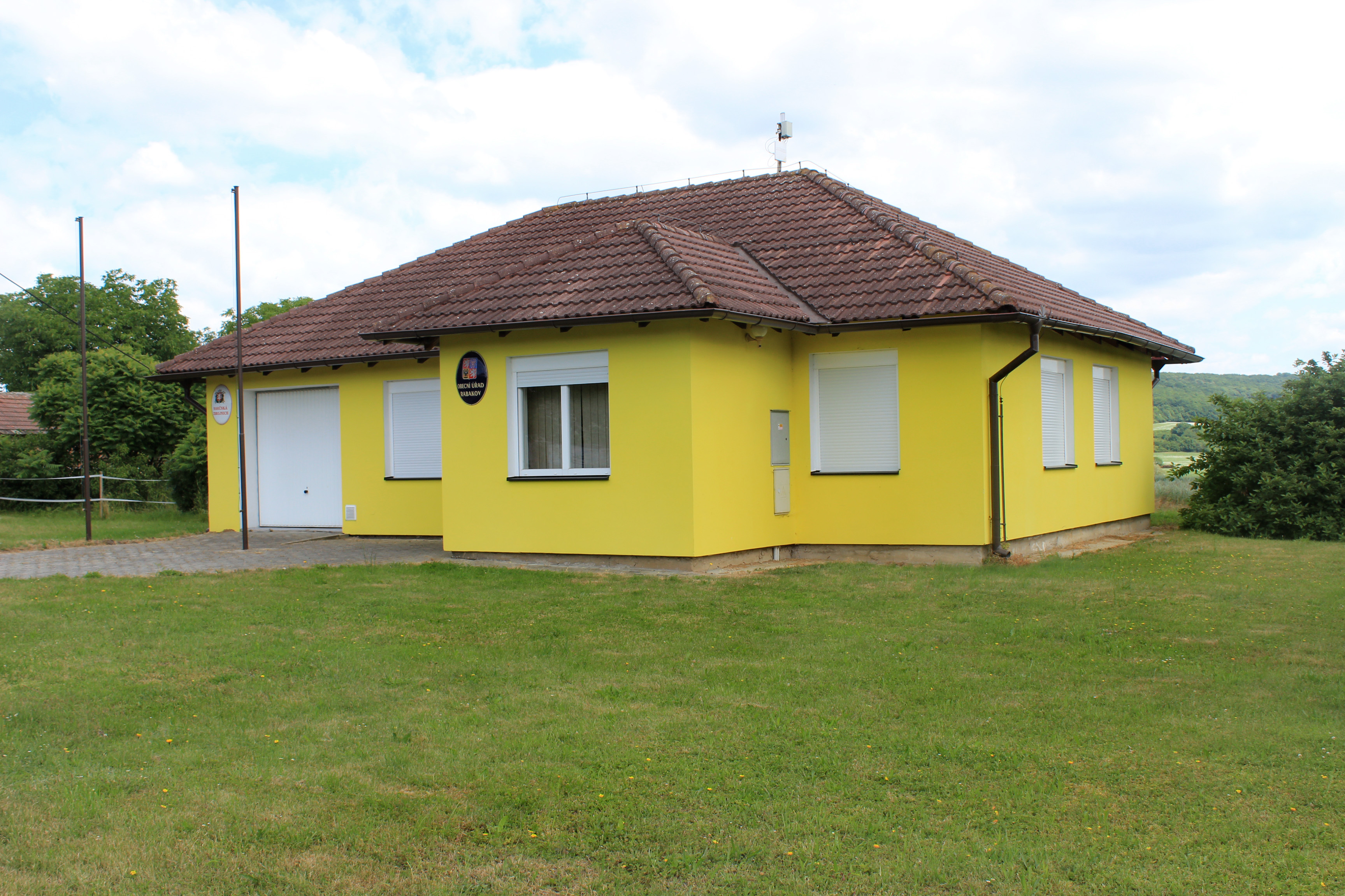 Municipal office in Rabakov, Czech Republic.